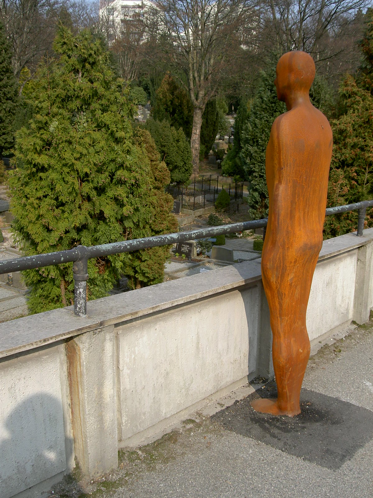 On a bridge over a graveyard